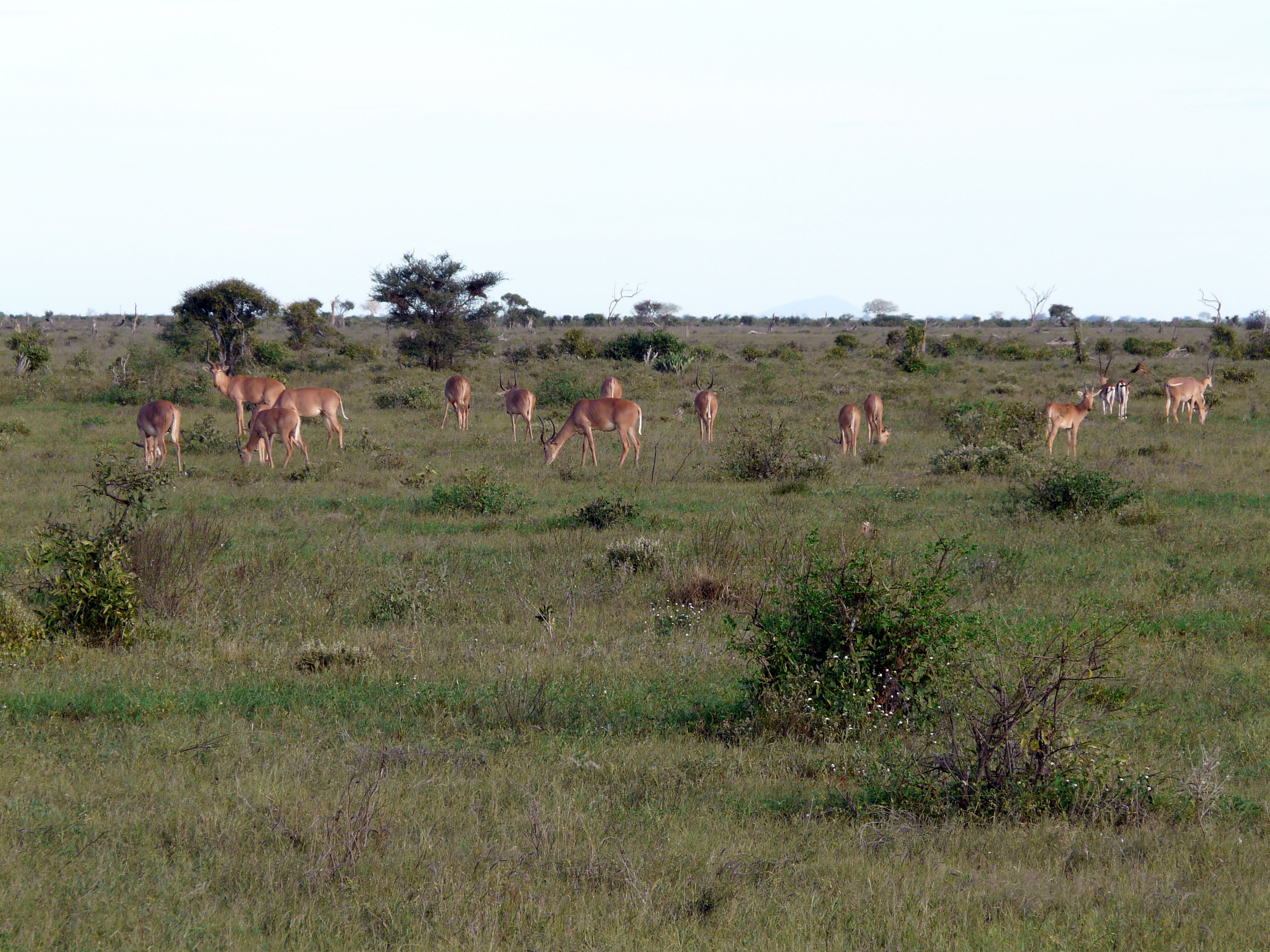 Nursery herd in Tsavo East National Park, 2011. (Copyright James Probert)